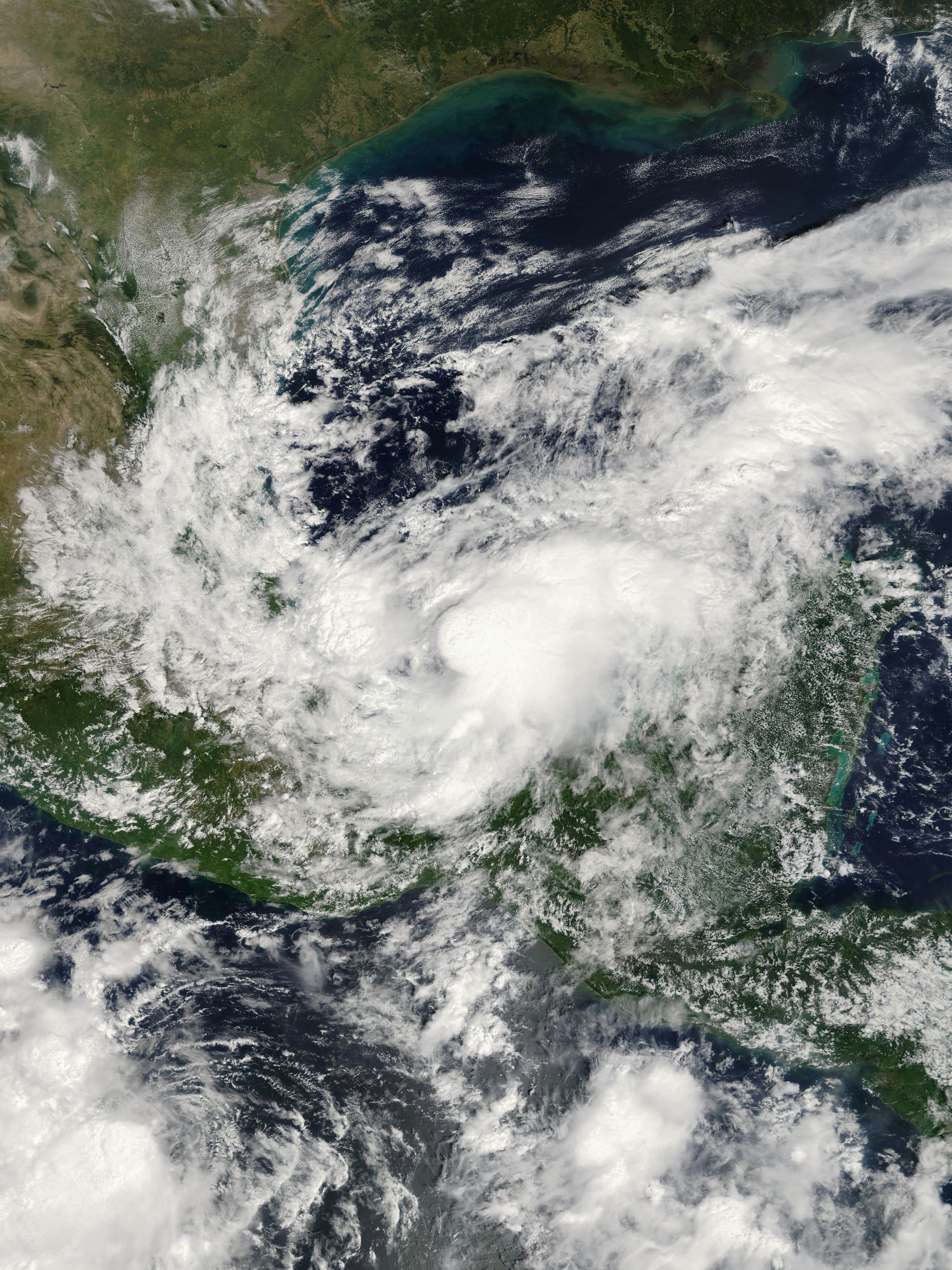 Tropical Storm Larry shortly after peak intensity in the Bay of Campeche on October 3, 2003, with newly-formed Tropical Storm Olaf to the southwest of Larry.